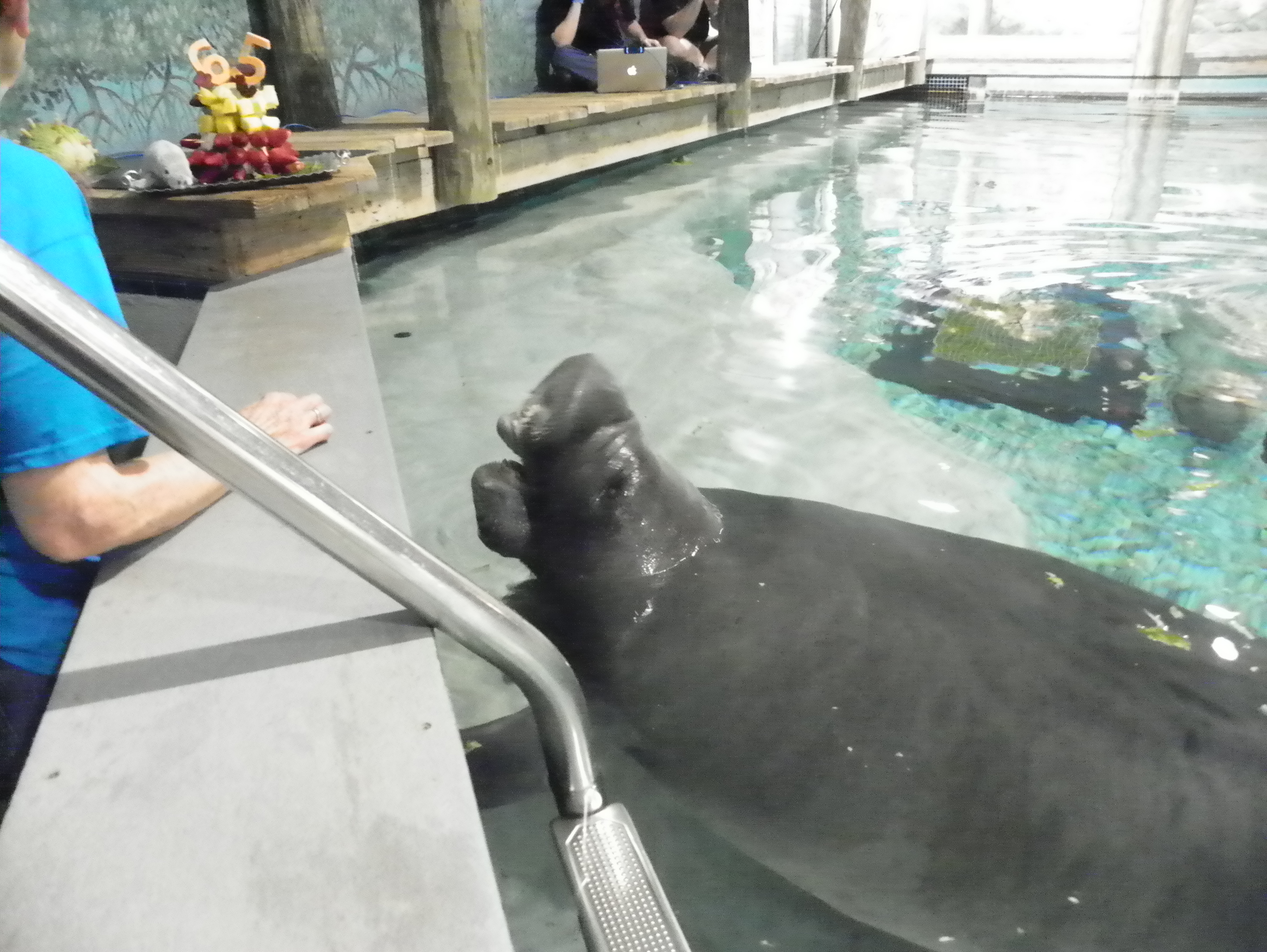 Snooty, the oldest known manatee, receives his 65th birthday "cake" in the background which is sculpted of fruits and vegetables.